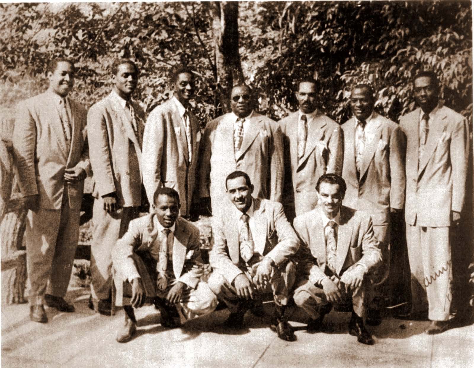 Conjunto de Arsenio Rodríguez. Standing, left to right: Carmelo Álvarez, Alfredo "Chocolate" Armenteros, René Scull, Arsenio Rodríguez, Antolín "Papa Kila" Suárez, Félix Chappottín, Carlos Ramírez. Crouching, left to right: Félix Alfonso, Lázaro Prieto, Lilí Martínez.